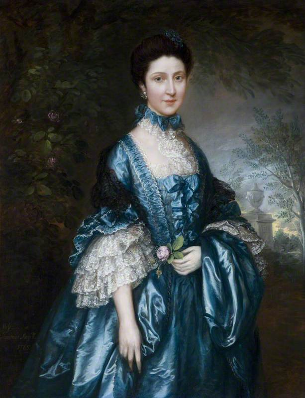 PCF/BBC/Ulster Museum's Theodosia Meade, Countess of Clanwilliam, (Miss Hawkins-Magill), by Thomas Gainsborough, 50 x 40 inches. Other information Provenance: Earls of Darnley, Kent; Duveen Brothers, New York; Norton Simon Collection, Los Angeles; Christie's London; Roy Miles Fine Paintings, London; Private Collection, USA; Christie's New York; Private Collection USA; Christie's London; present owner- Acquired in 1998 for £450,000, via Simon Dickinson Ltd, (NACF/Art Fund grant of £87,500).